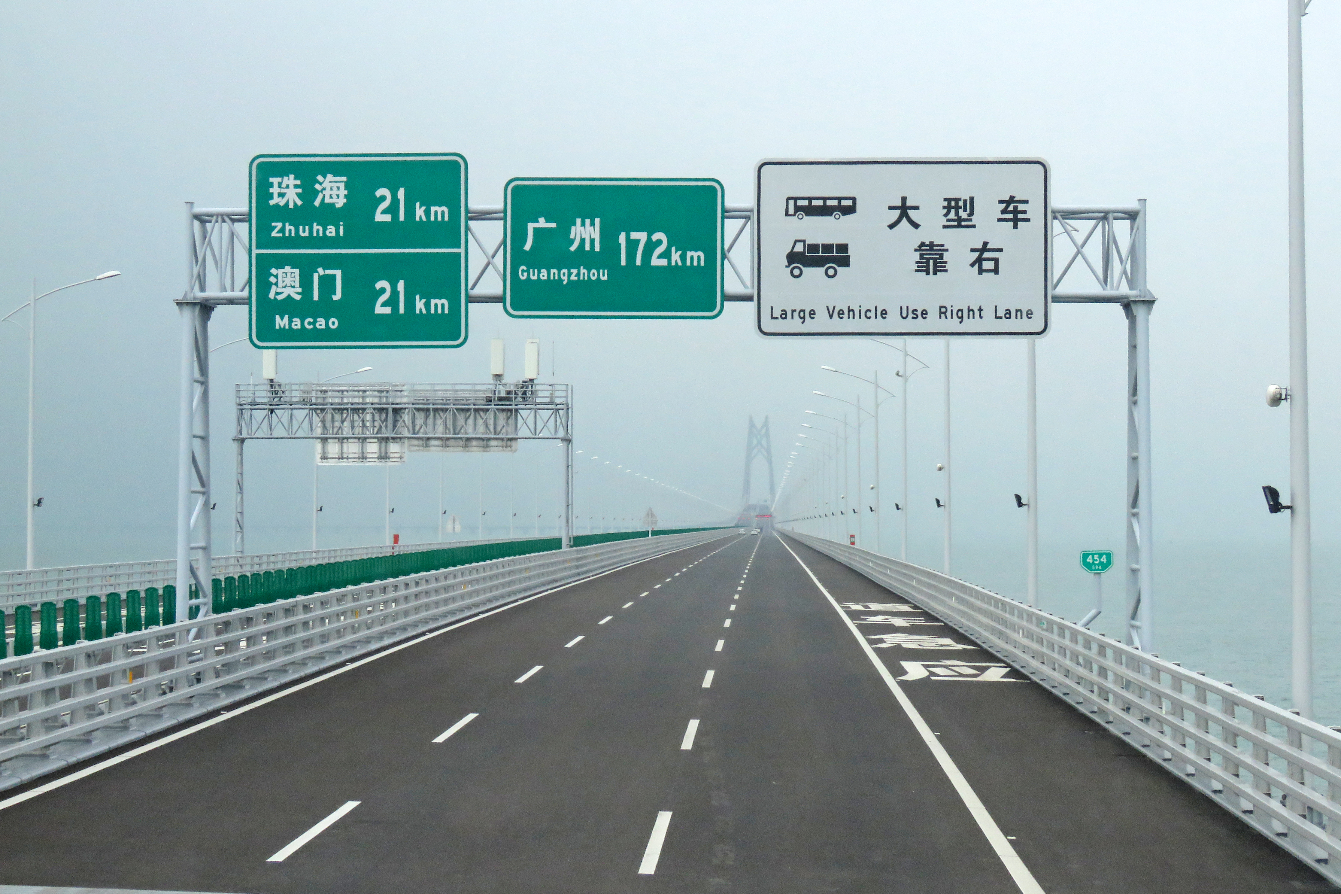 Taken from the shuttle bus. The first row is occupied...